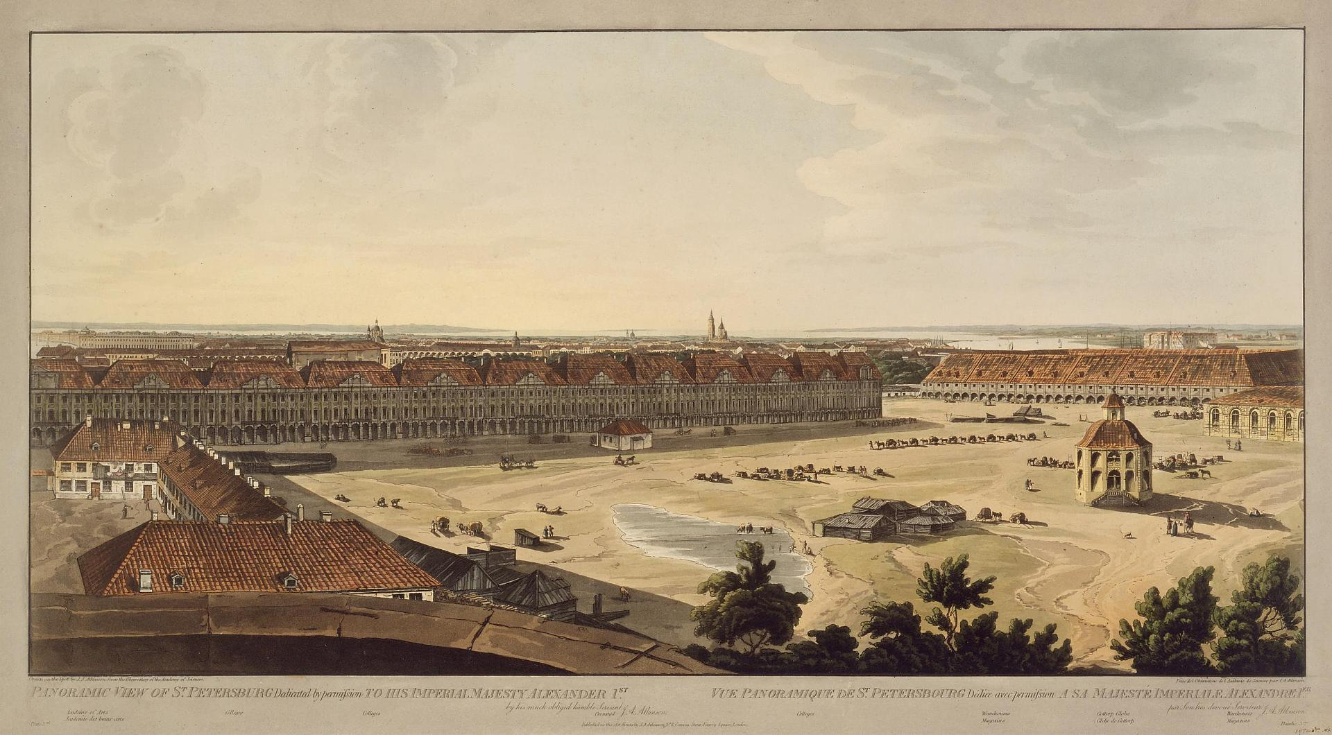 Caption (en/fr): "Panoramic view on Spit of the Vasilievsky Island in St. Petersburg, dedicated by permission to his Imperial Majesty Alexander 1st. by his much obliged humble servant J.A. Atkinson / drawn on the spot by J.A. Atkinson, from the observatory of the Academy of Sciences. 1802-1805. Plate 3rt. Academy of Arts. Colleges. Cronstad. Colleges. Warehouses. Gottorp Globe. Warehouse"